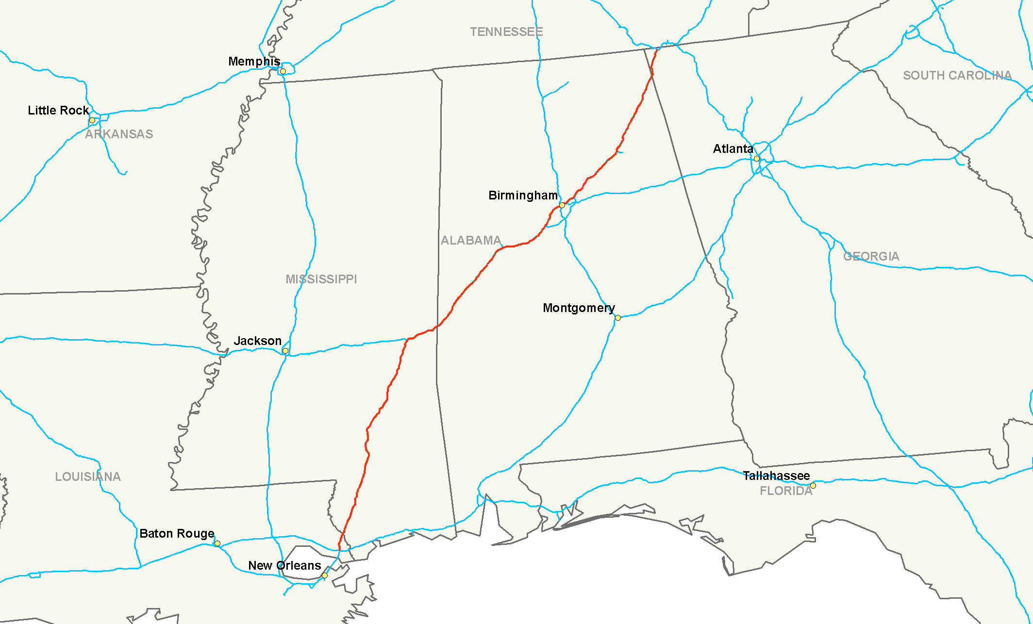 Map of Interstate 59